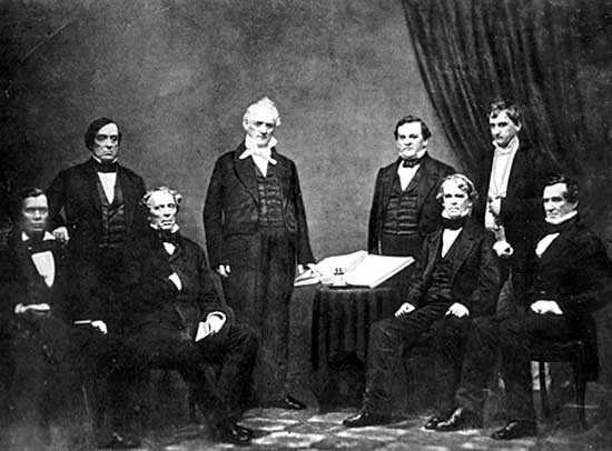 President James Buchanan and his cabinet, from left to right, Jacob Thompson (Secretary of the Interior), Lewis Cass (State), John B. Floyd (War), President Buchanan, Howell Cobb (Treasury), Isaac Toucey (Navy), Joseph Holt (Postmaster-General) and Jeremiah S. Black (Attorney-General).